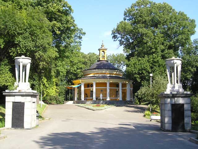 A photo of St. Nicholas church at the Askold's Grave in Kyiv